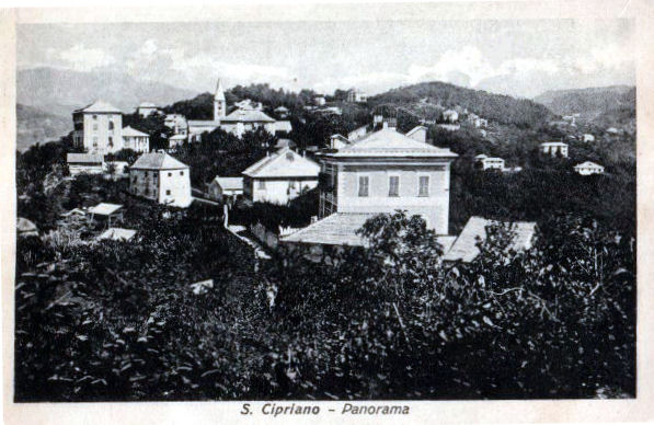 postcard of San Cipriano, Italy about 1895